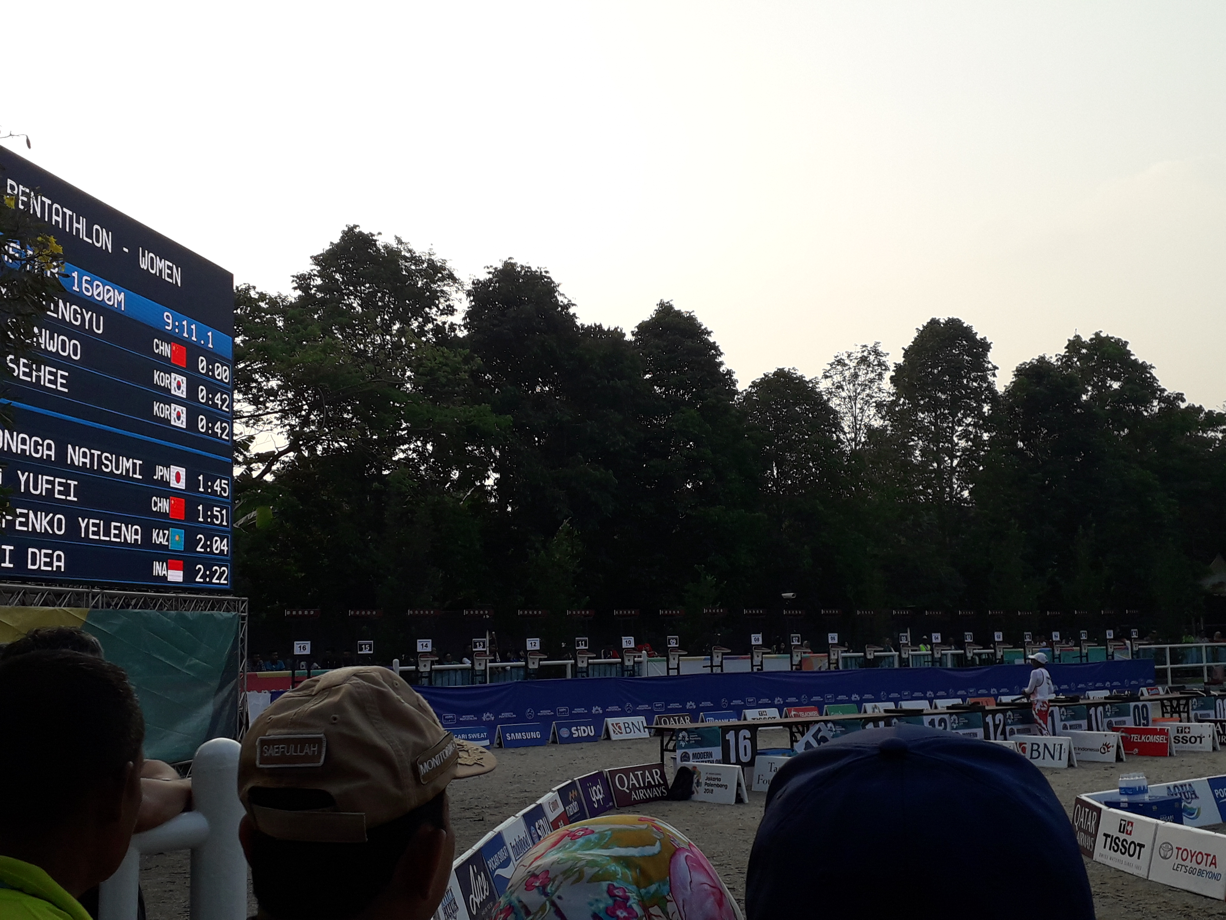 Laser-run stage of Womens Single Modern Pentathlon Asian Games 2018 on August 31st, 2018 at Adria Pratama Mulya (APM) Equestrian Centre, Tigaraksa, Banten, Indonesia.